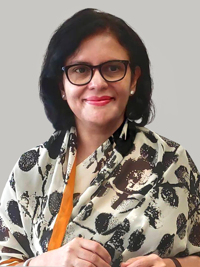 Dr. Rubana Huq at the 21st Year Celebration Ceremony of TechnoVista Limited